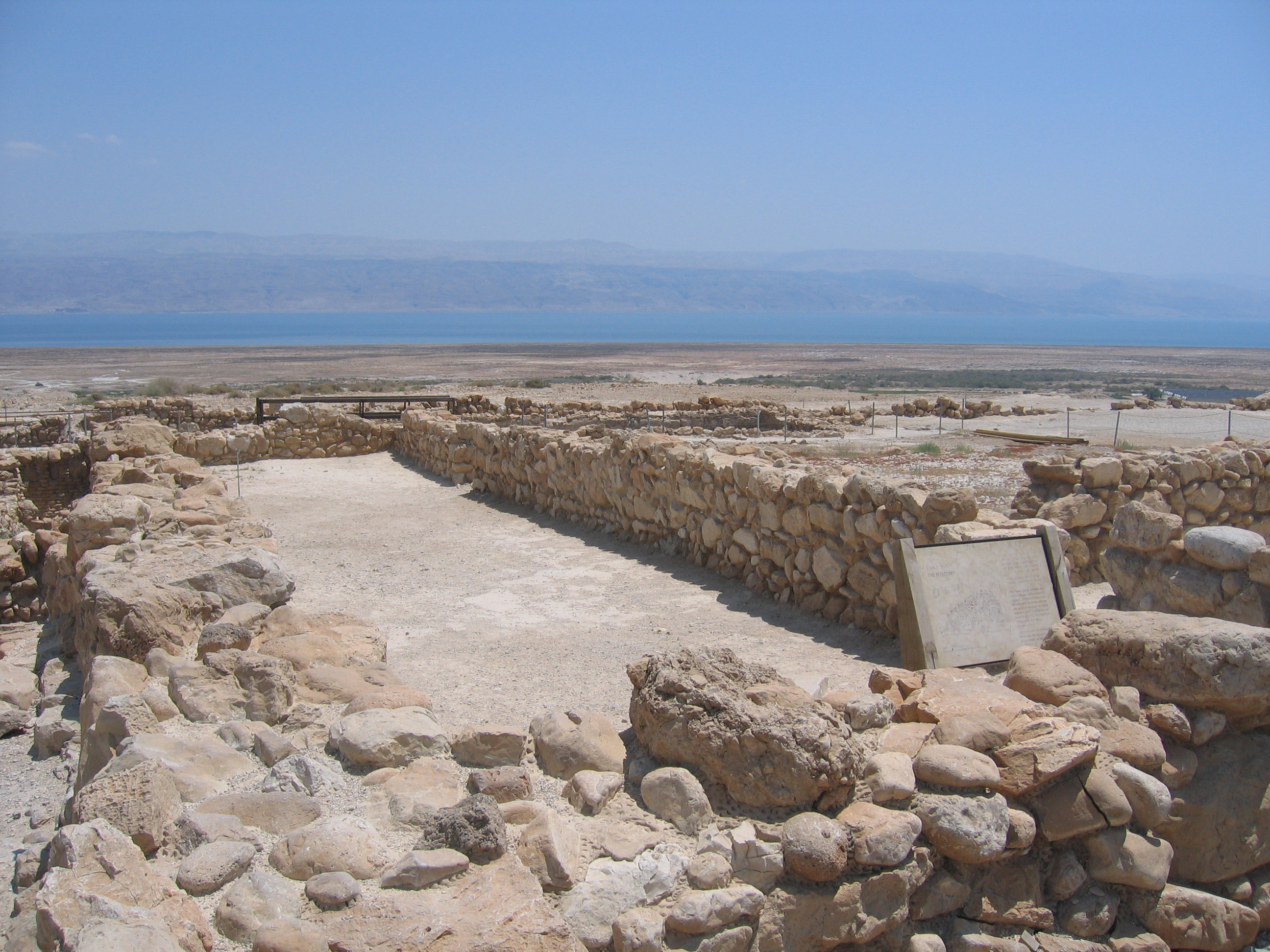 Qumran refectory (locus 77)